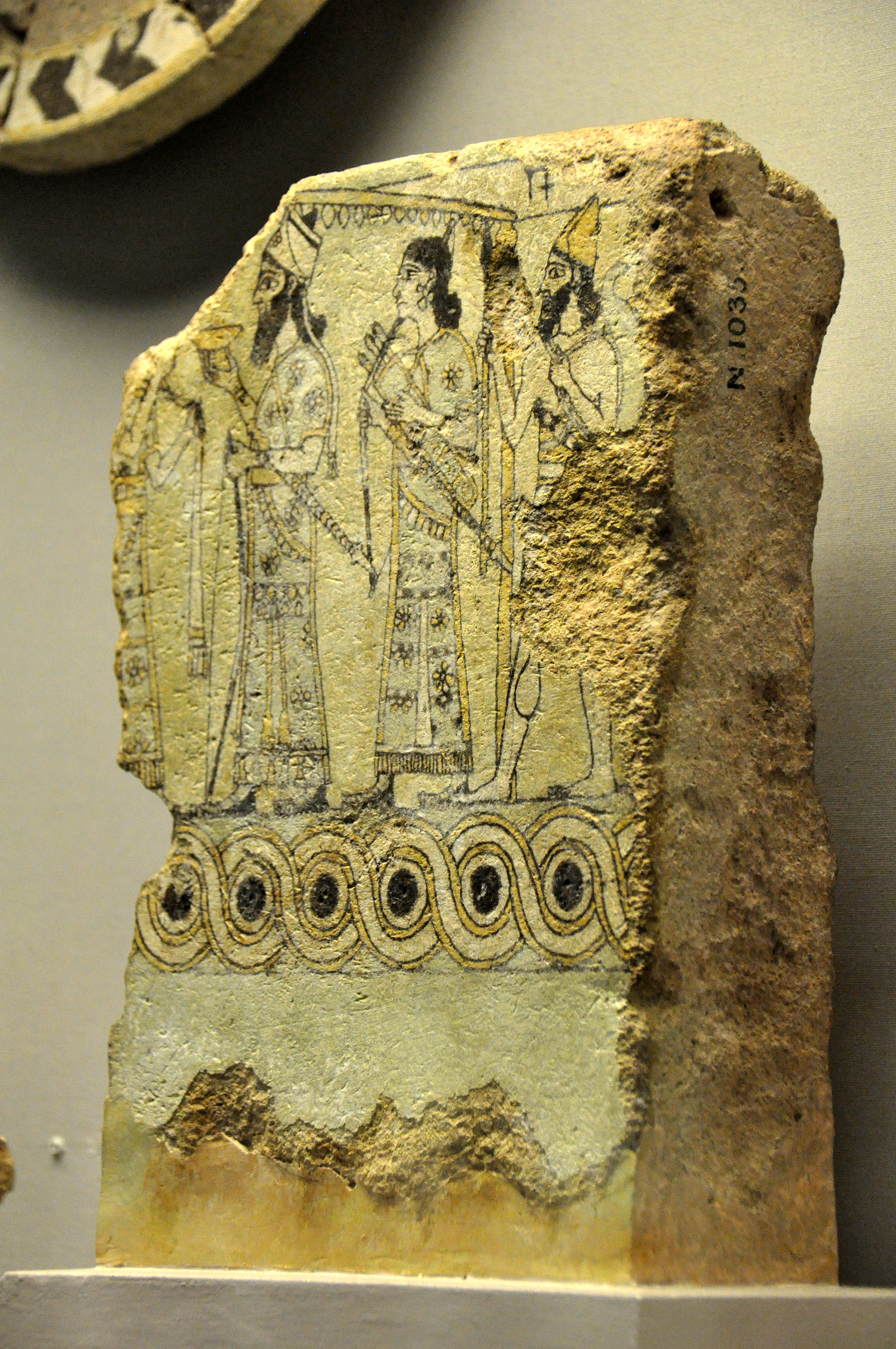 A glazed terracotta tile from Nimrud. The Assyrian king stands below a parasol (holding a cup and a bow) and is surrounded by his royal guards and attendants. Probably, the depicted scene is part of a longer sequence, depicting the king as a victorious warrior and hunter. Neo-Assyrian Period, 875-850 BCE. From Nimrud (ancient Kalhu), Mesopotamia, modern-day Iraq. The British Museum, London.